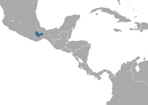 Big Mexican Small-eared Shrew (Cryptotis magna) range